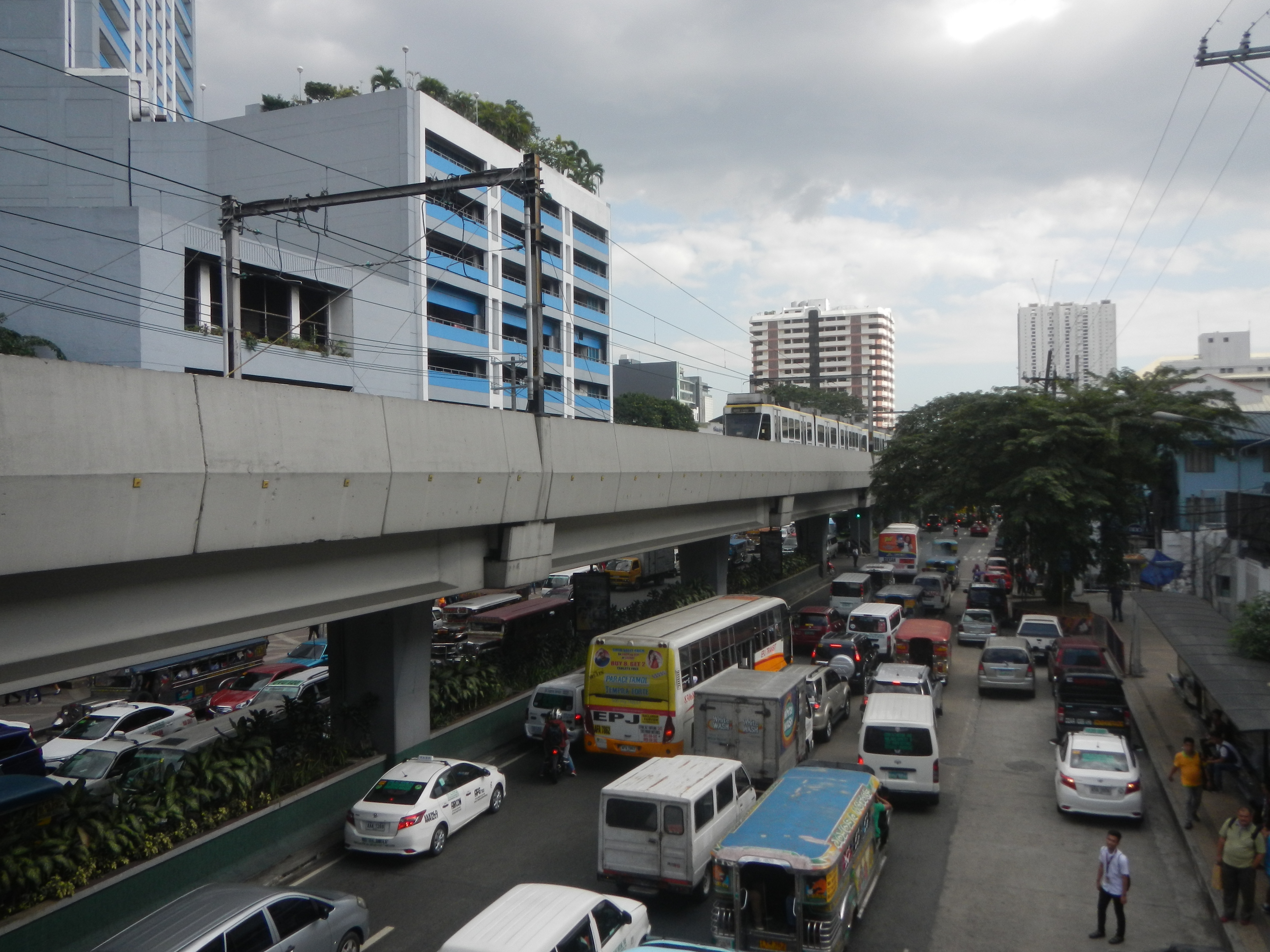 Ermita, Manila, United Nations Avenue along Taft Avenue United Nations LRT Station corner Padre Faura Street (Note: Judge Florentino Floro, the owner, to repeat, Donor Florentino Floro of all these photos hereby donate gratuitously, freely and unconditionally all these photos to and for Wikimedia Commons, exclusively, for public use of the public domain, and again without any condition whatsoever).